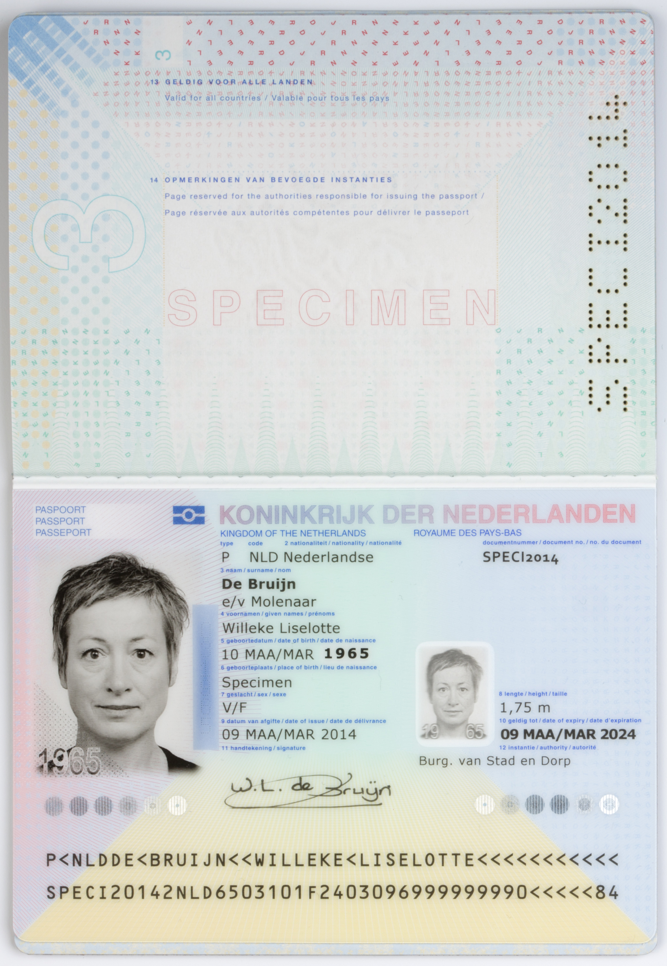 Dutch passport specimen issued 9 March 2022